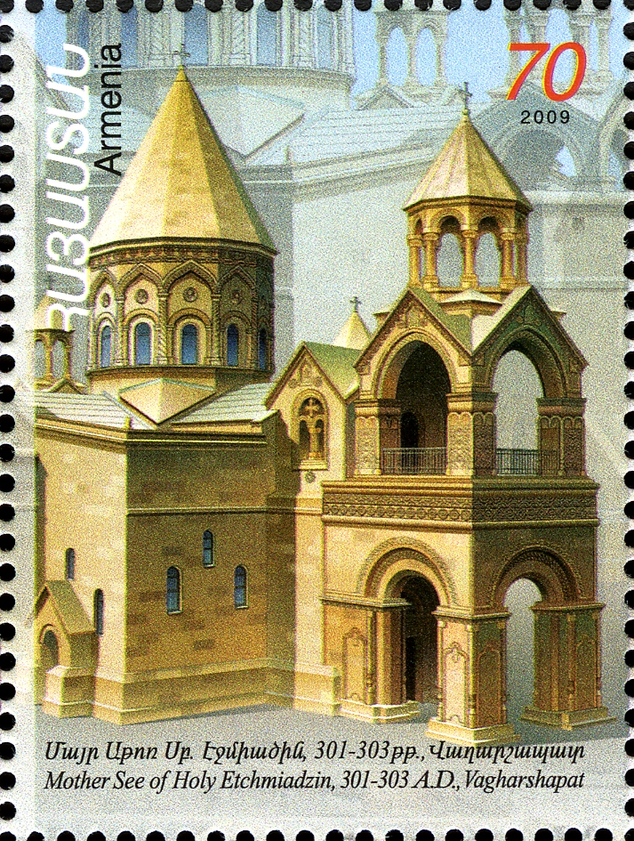 Monuments included in the list of UNESCO World Heritage I: Cathedral of Mother See of Holy Etchmiadzin, St.Hripsimeh church , St.Gayane church in Ejmiatsin, Zvartnots Church